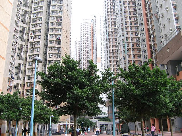 Po Tat Estate, Sau Mau Ping